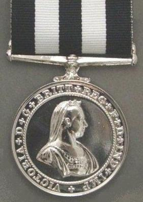 This is a photograph of the Service Medal of the Venerable Order of St John. I took the photo when I first received the award and only recently scanned it into my computer.